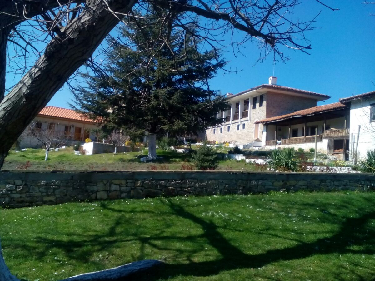 Monastery of Saint Athanasius